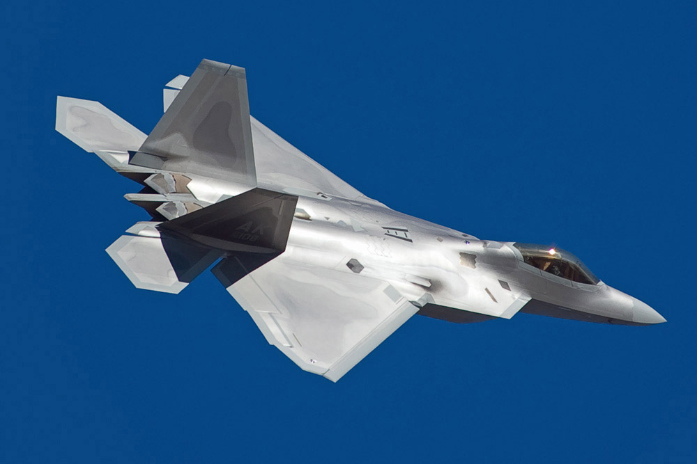 Air Force officials have scheduled to deploy two contingents of F-22A Raptors to the Pacific theater in January 2009 for approximately three months. Current plans call for 12 of the fighters to deploy to Kadena Air Base, Japan, from Langley Air Force Base, Va., and another 12 to deploy to Andersen Air Force Base, Guam, from Elmendorf Air Force Base, Alaska. The deployments support U.S. Pacific Command's theater security packages in the Western Pacific. (U.S. Air Force photo/Scott Wolfe)